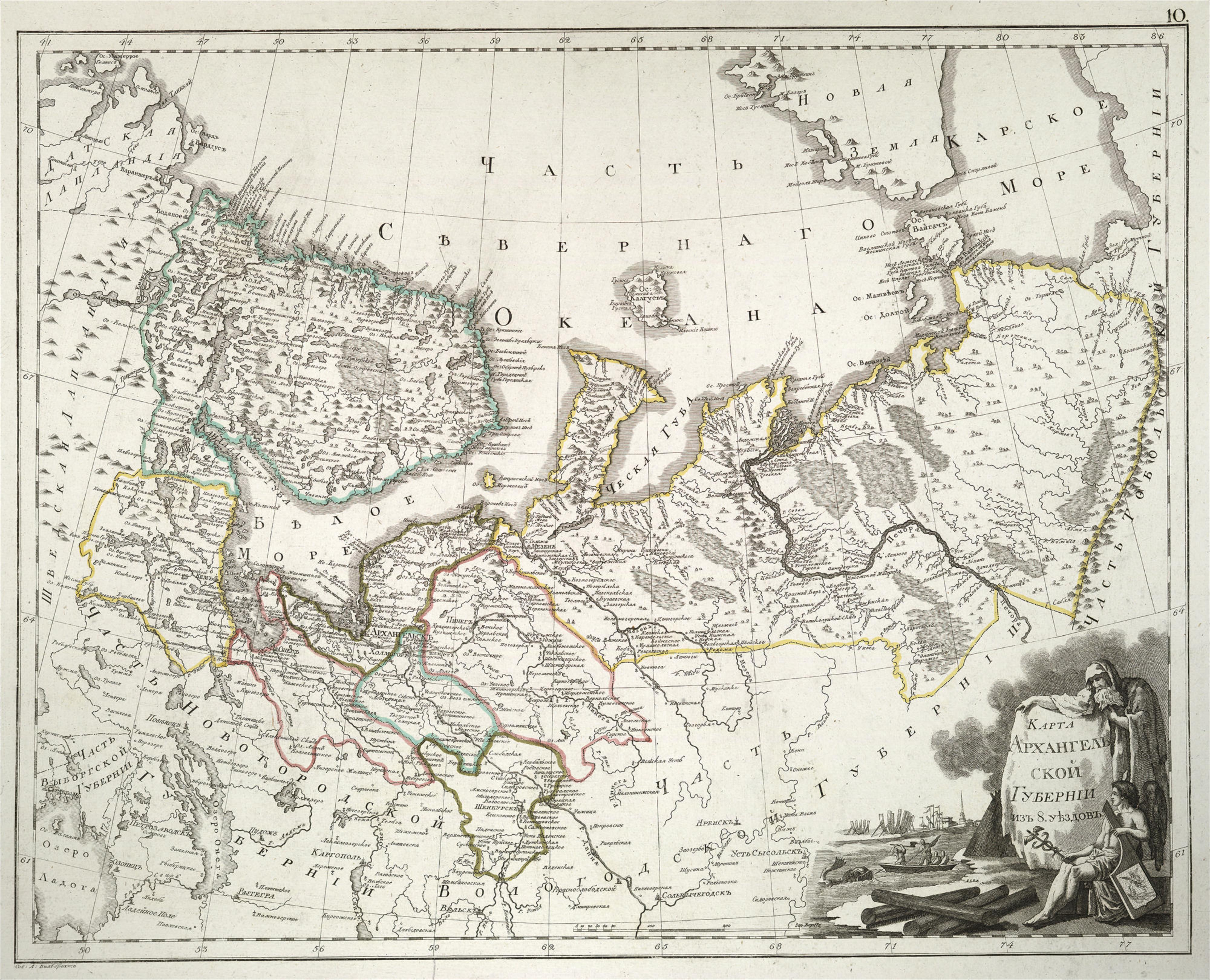 Atlas of Russian Empire. 1800 year. List 10. Arkhangelskaya Province from 8 uyezds